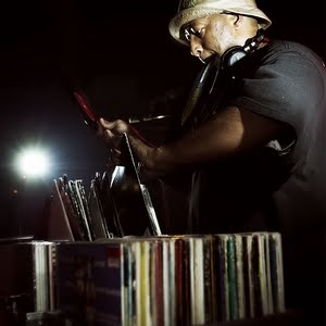 Hip-Hop Producer DJ Premier digging through his collection of vinyl records to sample sounds from. As he is DJing